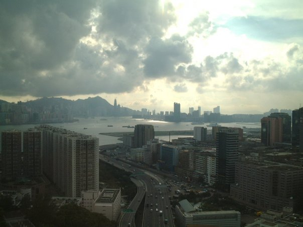 none